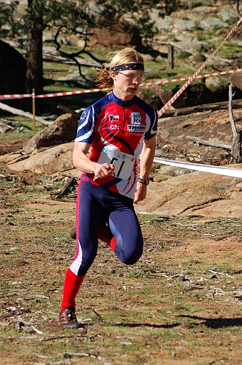 Stepan Kodeda (JWOC2007 long distance)